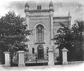 Synagogue in Chomutov, Czech Republic, destroyed during Kristallnacht. Česky: Synagoga v Chomutově, zničená během Křišťálové noci.